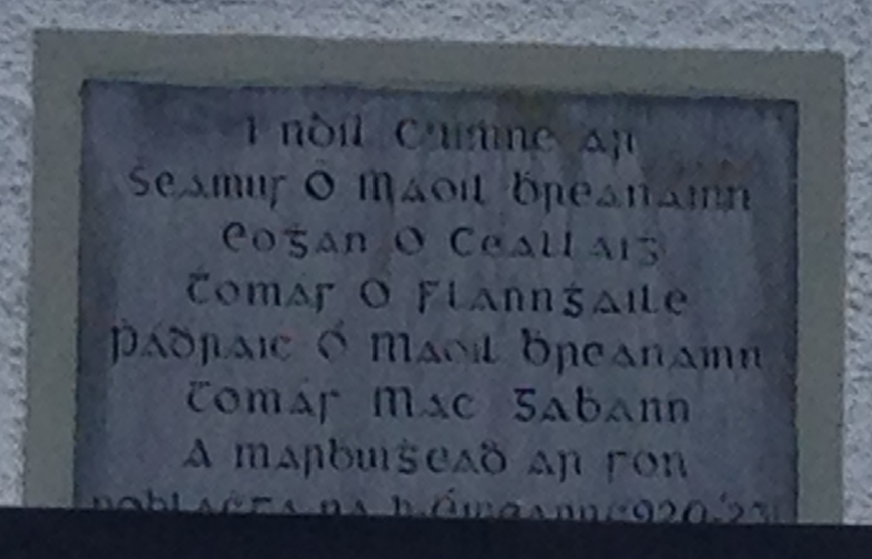 Dedication plaque on Lisacul Memorial Hall written in Irish